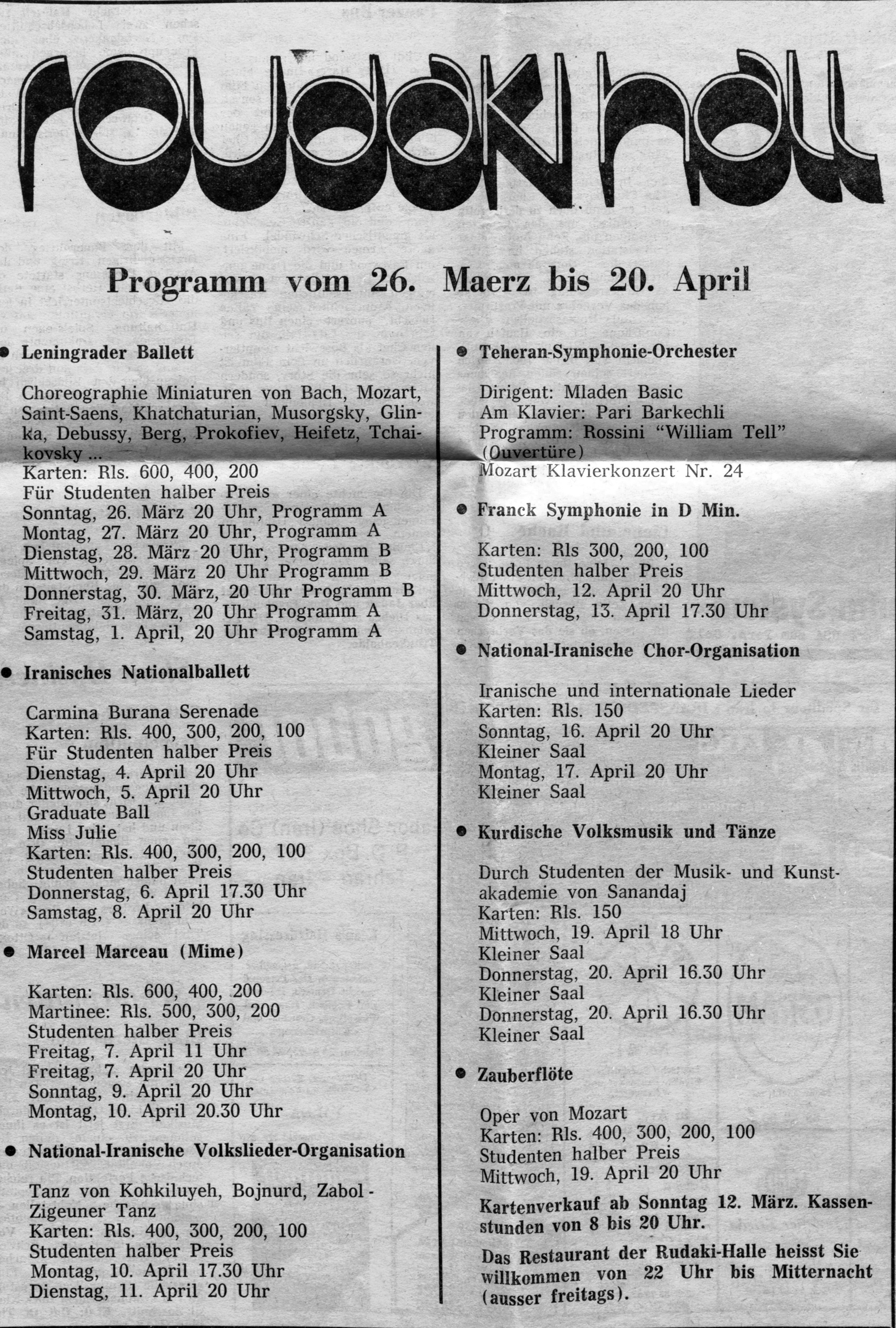 Die Post - Tehran weekly newspaper in German, ad Rudaki Hall upcoming performances